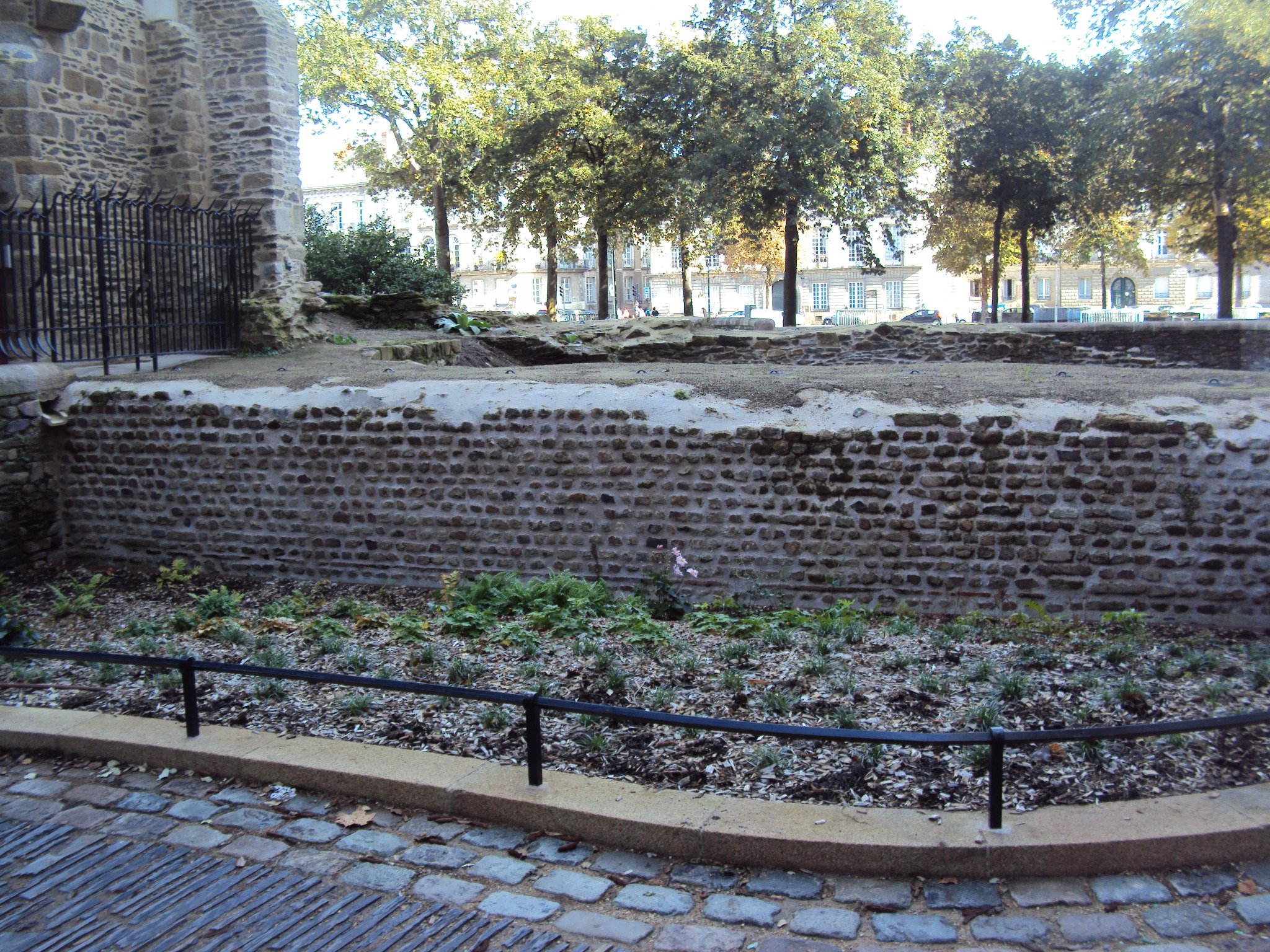 Gallo-Roman wall of Nantes, between the Cathedral and Porte Saint-Pierre, interior side, October 2014.